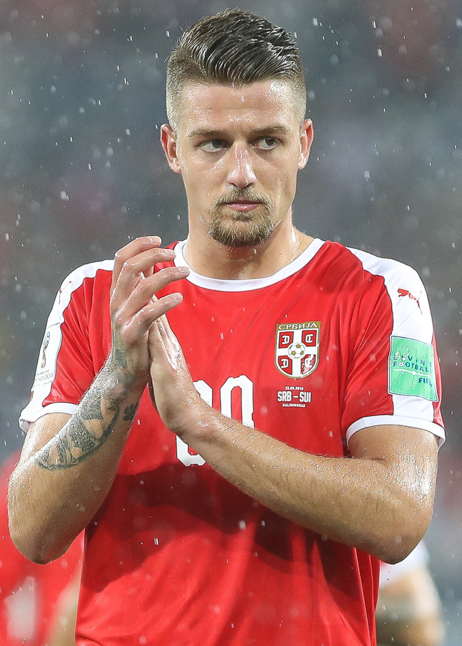 Serbian footballer Sergej Milinković-Savić on 22 June 2018, during the 2018 FIFA World Cup group stage match between Serbia and Switzerland.